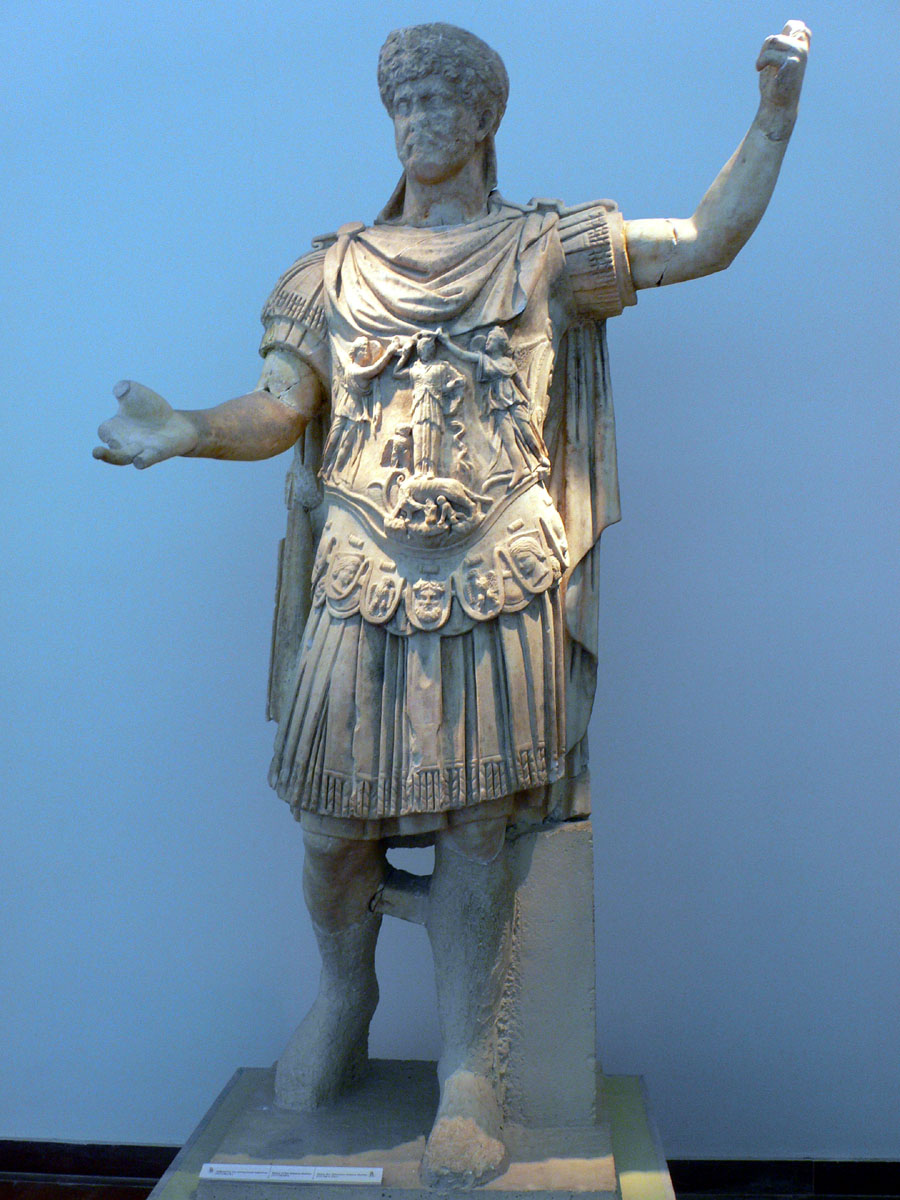 Roman emperor Hadrianus. Roman sculpture in the Archaeological museum of Olympia (Greece). It was part of the Nymphaion built by Herod Atticus in the II c.